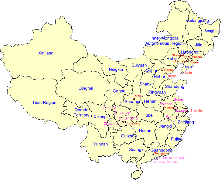 PRC provinces (1949)